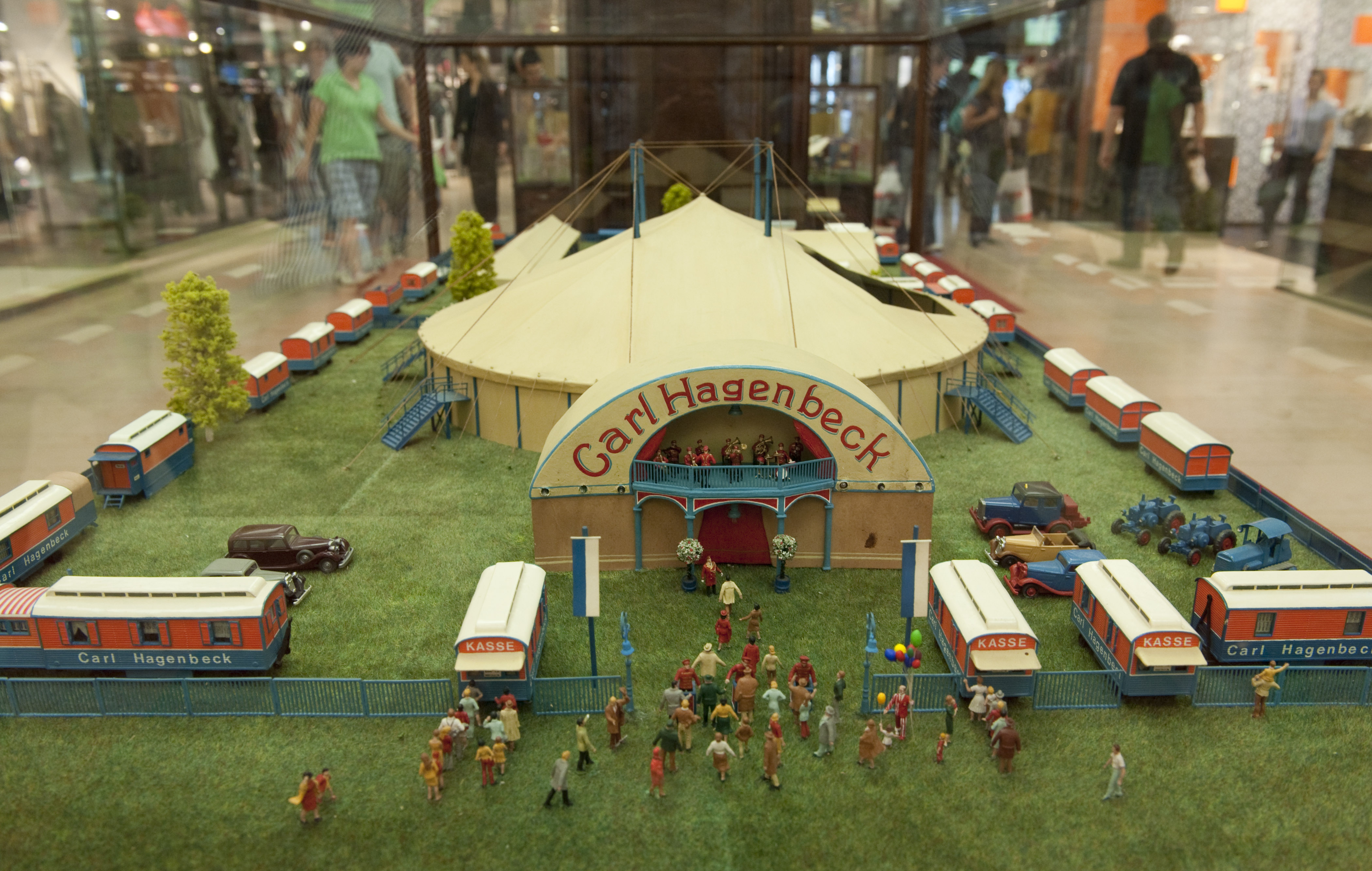 Exhibition from various Circus at the mall Galerie Luise in Hannover, Germany - This is a model of Circus Hagenbeck